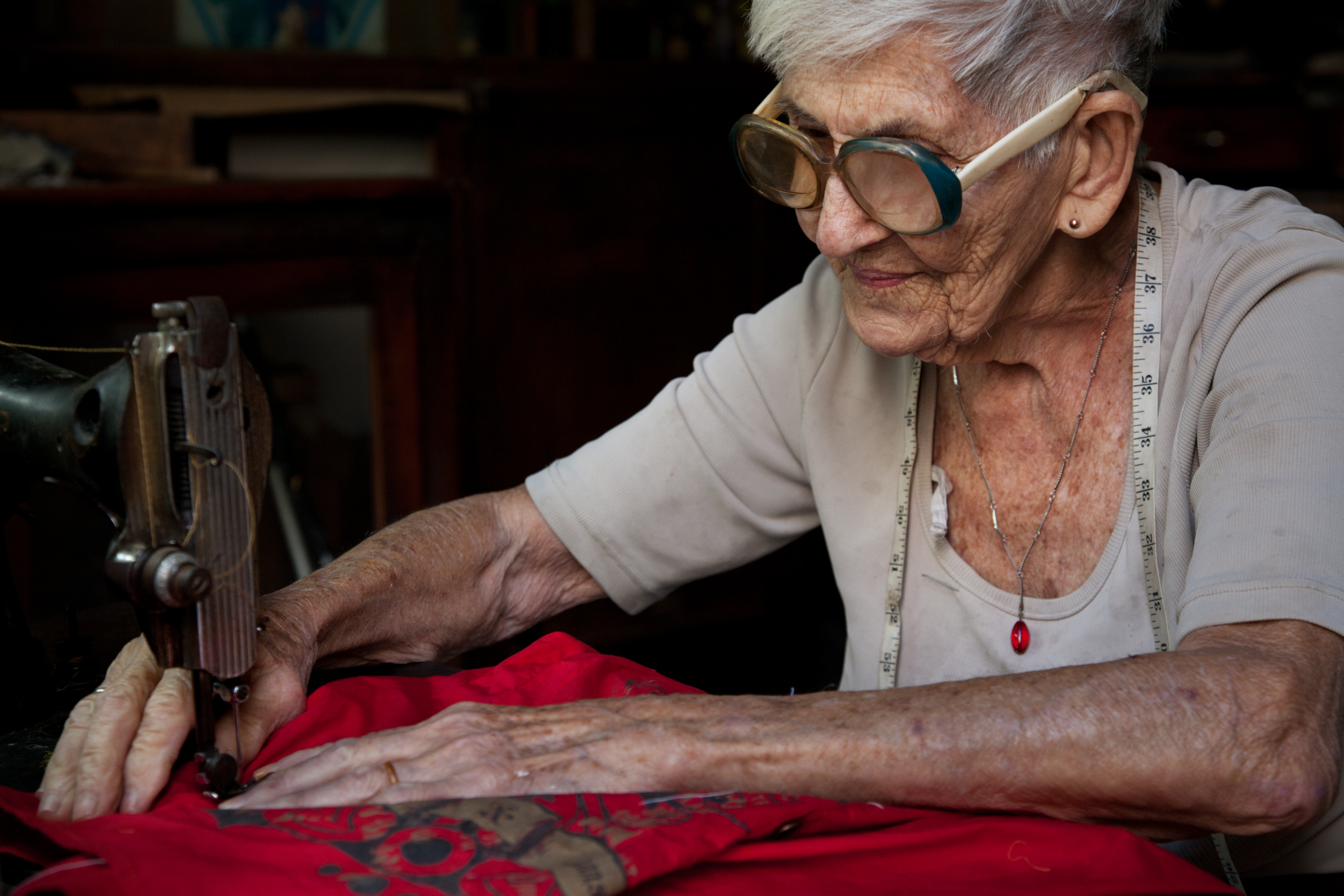 Seamstress, dressmaker in Havana (La Habana), Cuba